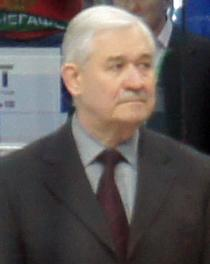 Soviet and Russian ice hockey player and coach Vladimir Yurzinov Senior. Moscow, 2010. Special thanks to Alex Malygin